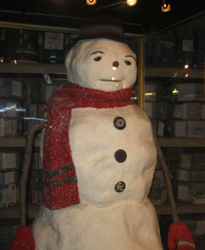 Prop from the film Jack Frost released in 1998 displayed at the Underground Vaults & Storage Exhibit.